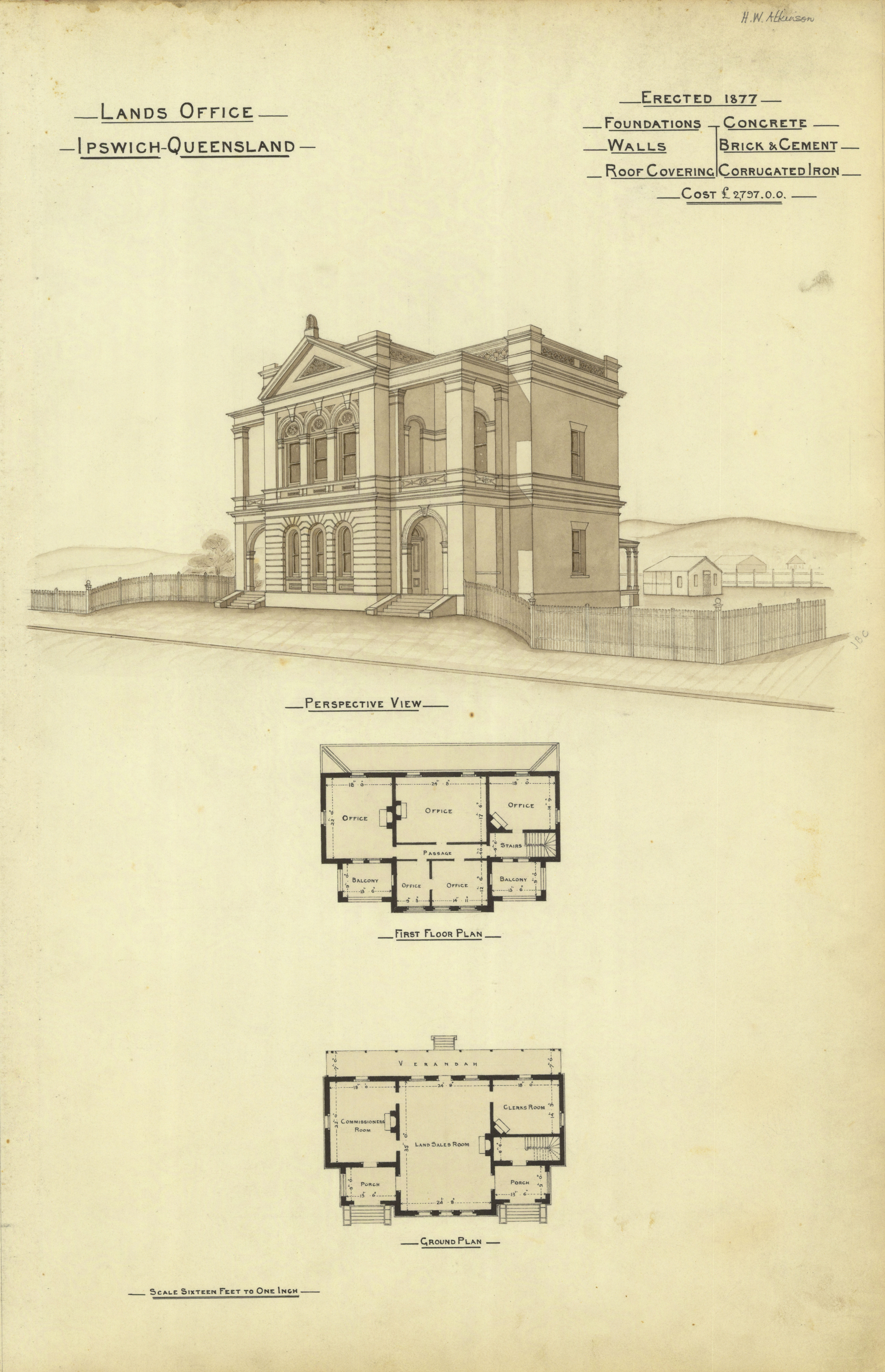 Lands Office, Ipswich, erected 1877